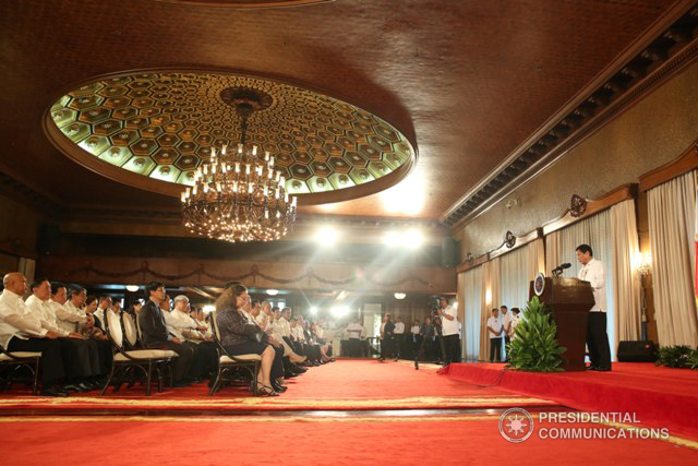 President Rodrigo Duterte speaks before the audience during an oath-taking ceremony of new officials in Malacañan’s Rizal Hall on October 11.